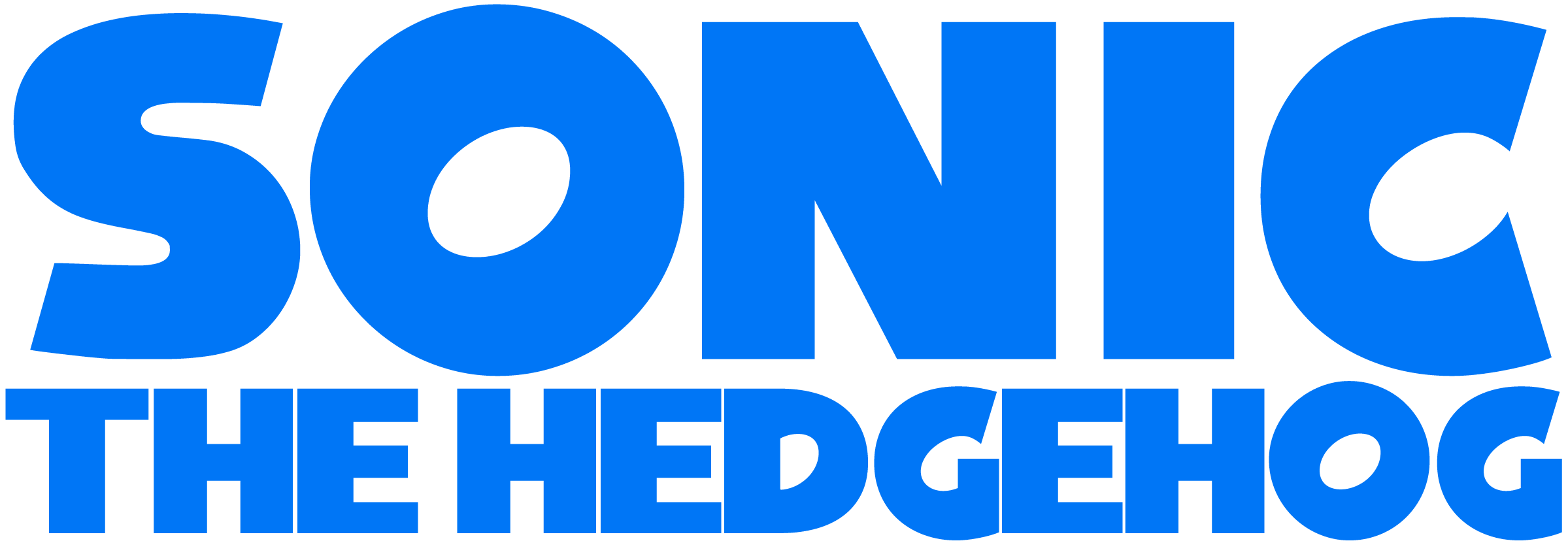 The logo of Sonic the Hedgehog